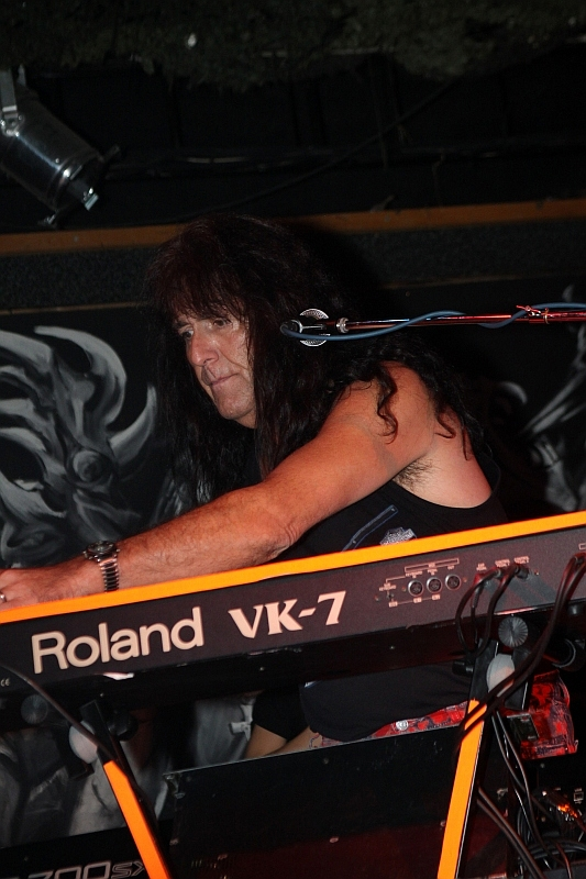 Iron Butterfly keyboard player Martin Gerschwitz in Prague (Exit Chmelnice) on 7 October 2010. Roland VK-7